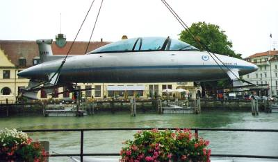 Felix Wankel Zisch-74 powerd by MB KM950 four disk Wankel engine